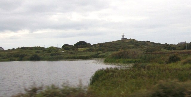 Llyn Cerrig-bach and the Carnau RAF mast